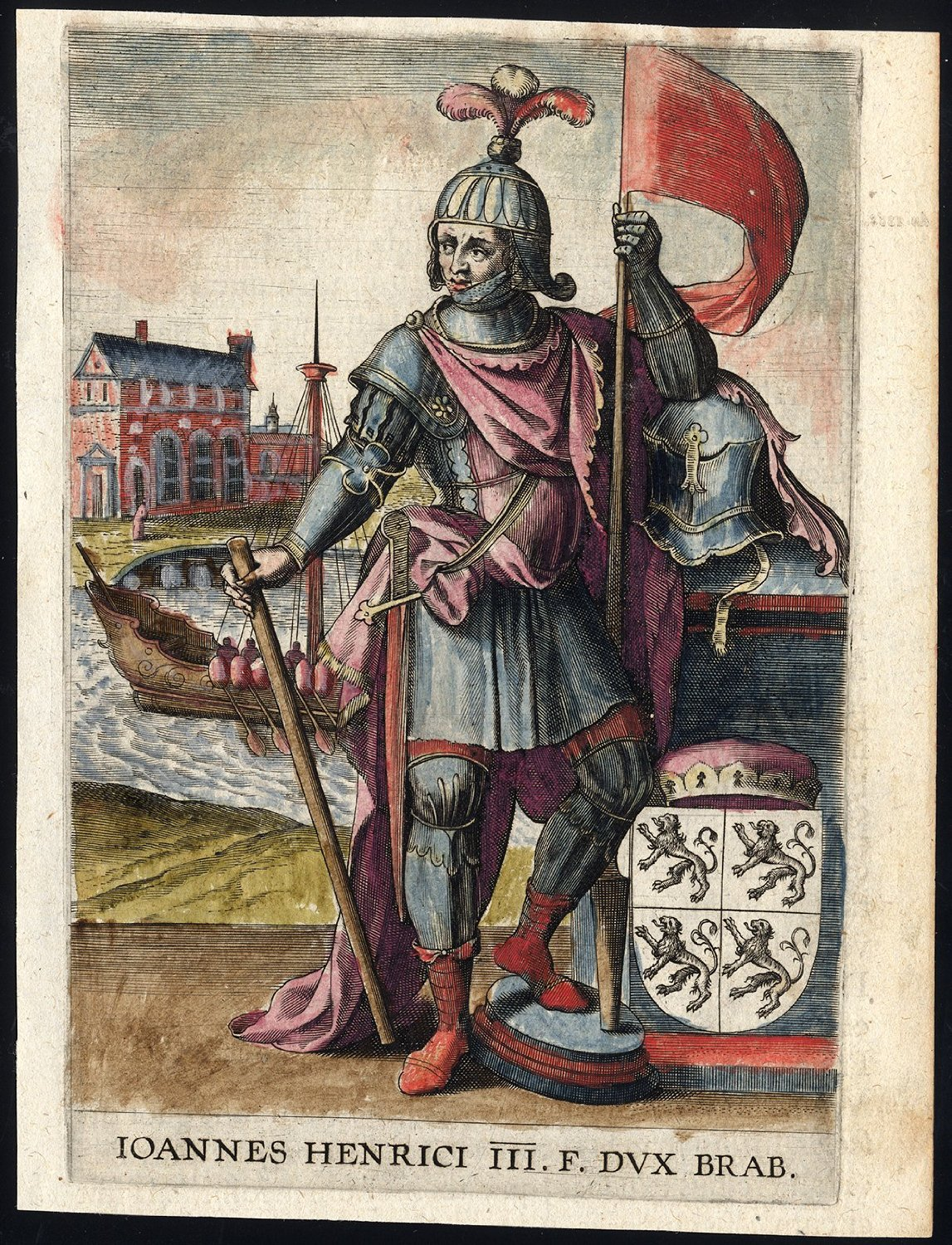 John I of Brabant